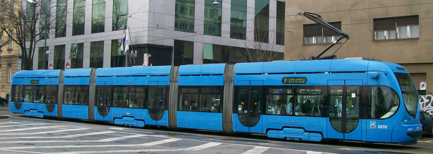 Ctrotram TMK 2200 tram (#2215) in Zagreb, Croatia. Built 2006. Also known as Crotram NT 2200.